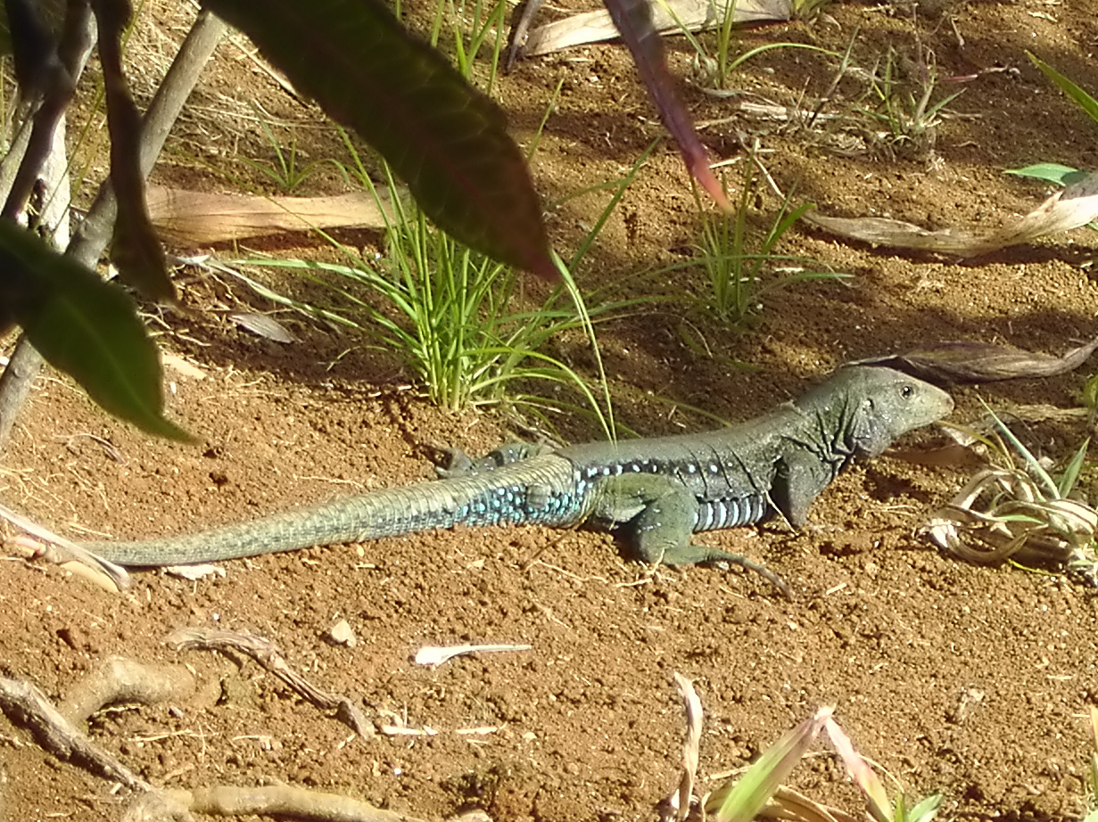 Male, endemic ameiva near Palm Tree House, Woodfordhill, Dominica, W.I. Commonly known as the Dominica Ground Lizard; locally known as the Abòlò.